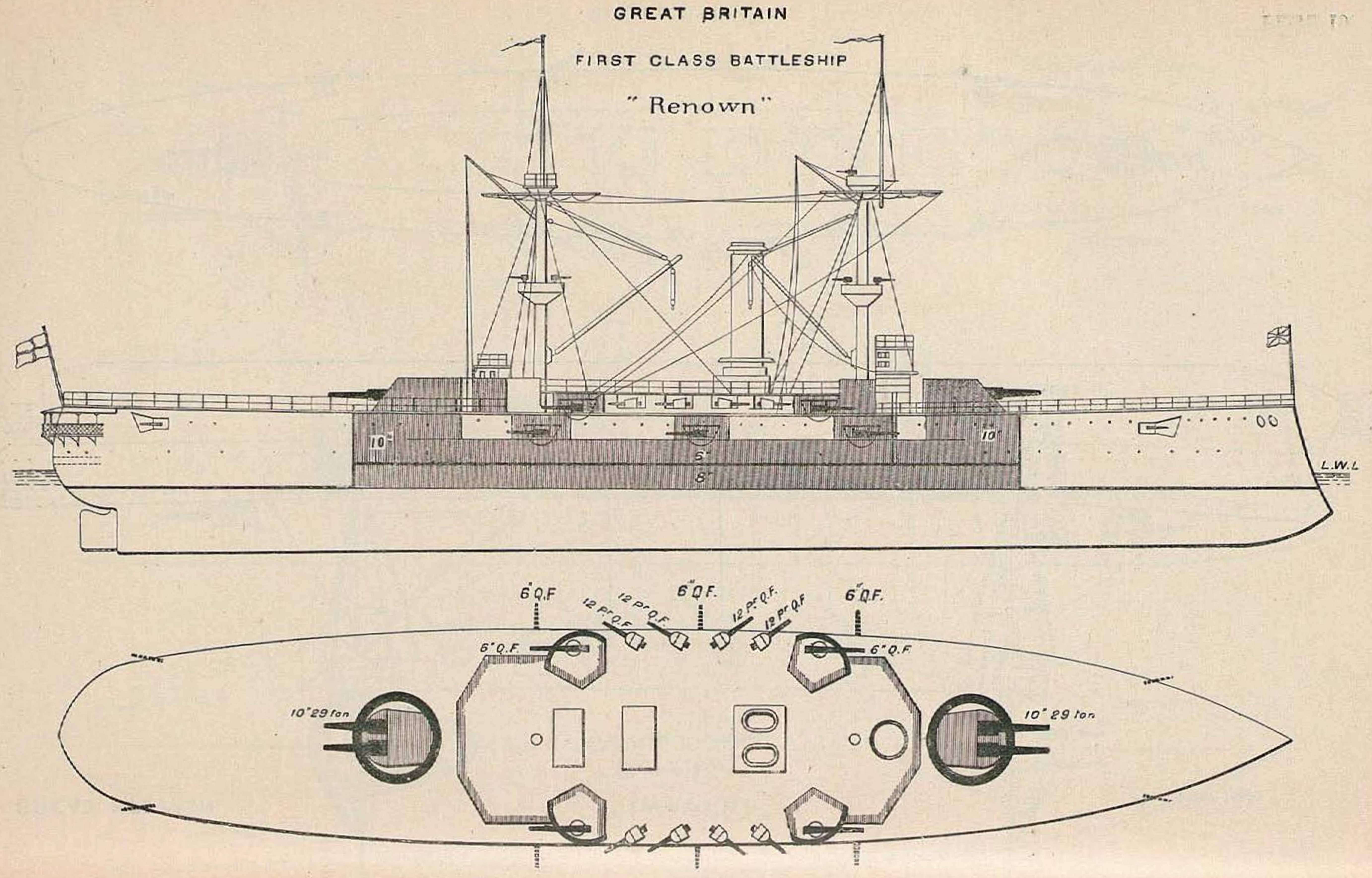 Right elevation and plan diagrams of British battleship HMS Renown.